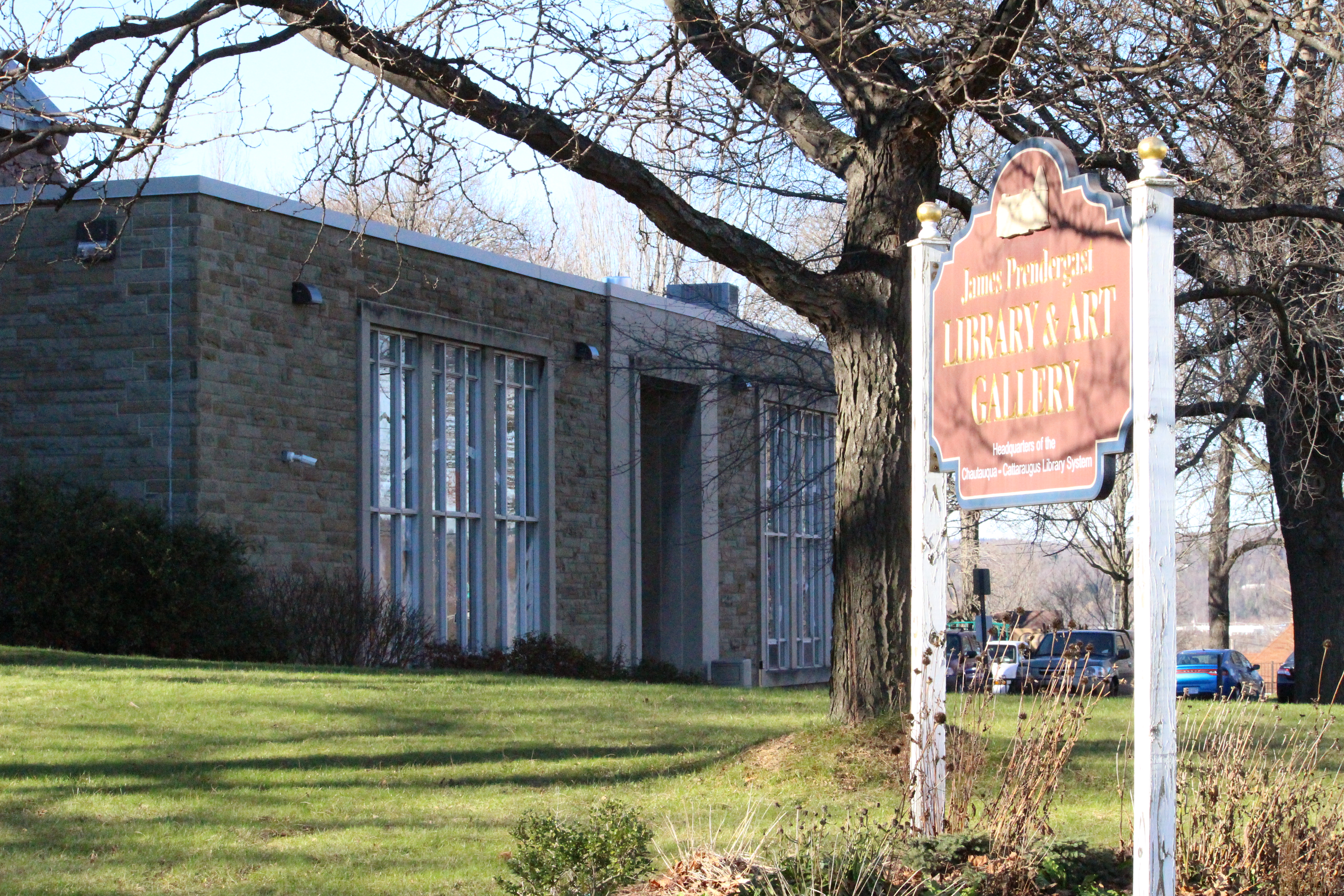 A photograph of James Prendergast Libraries addition completed in 1968